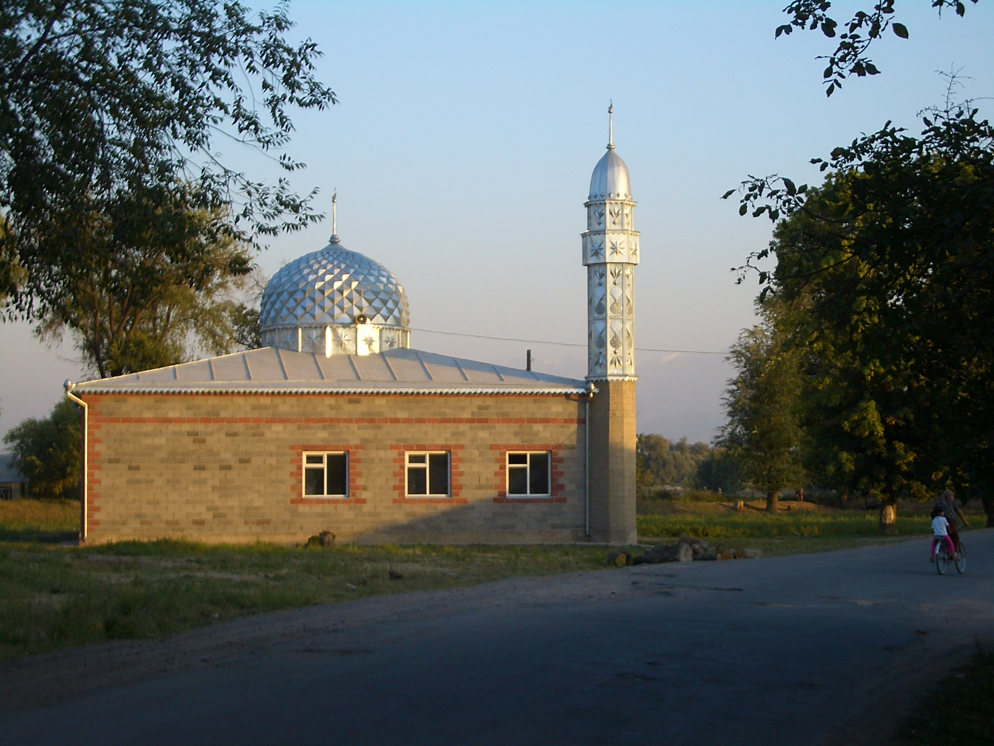 The mosque in the village of Pervomayskoe, in Ysyk Ata District of Chuy Province. (Between Kant and Milyanfan).